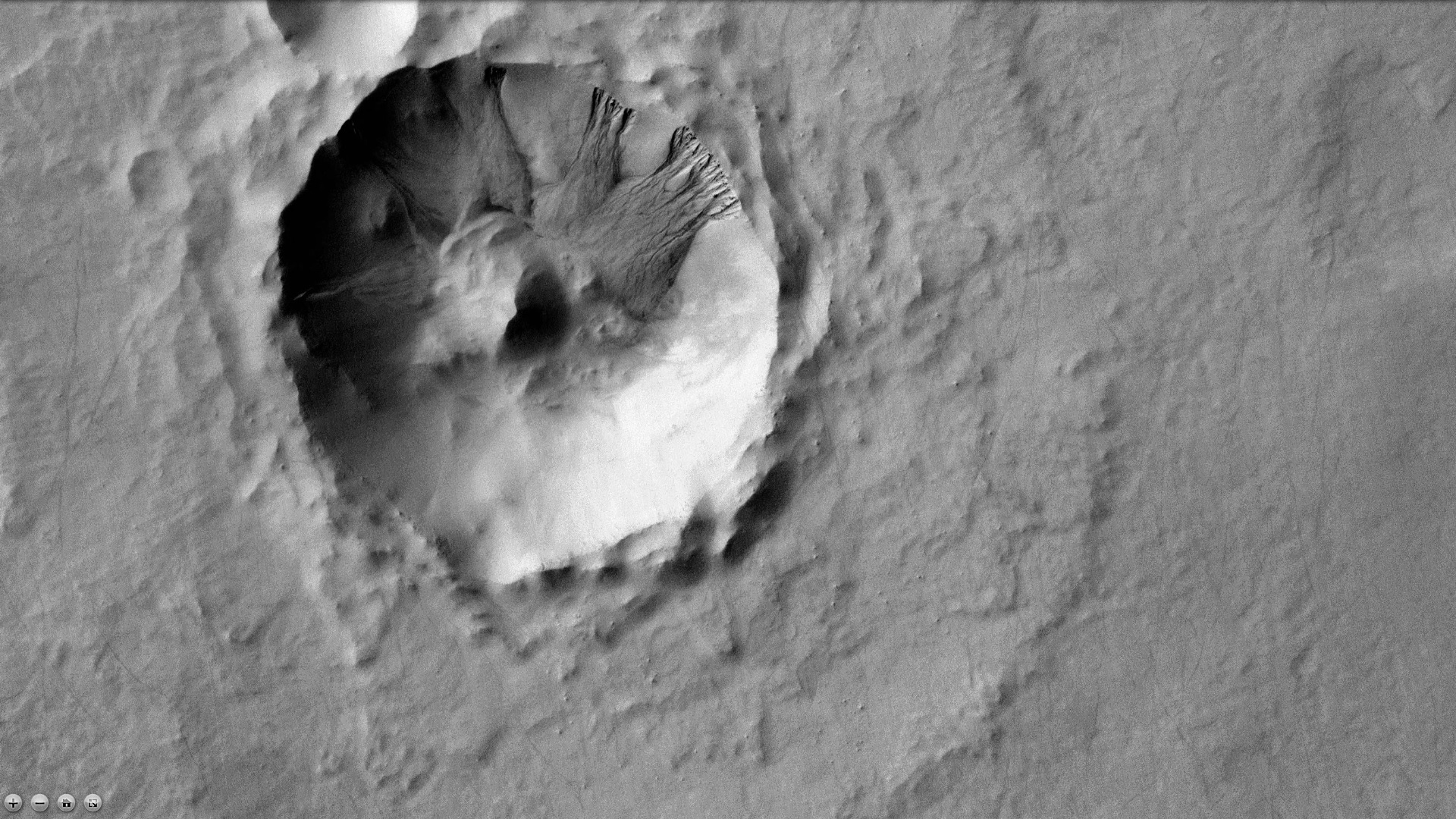 Gullies in crater on floor of Heaviside Crater, as seen by ctx